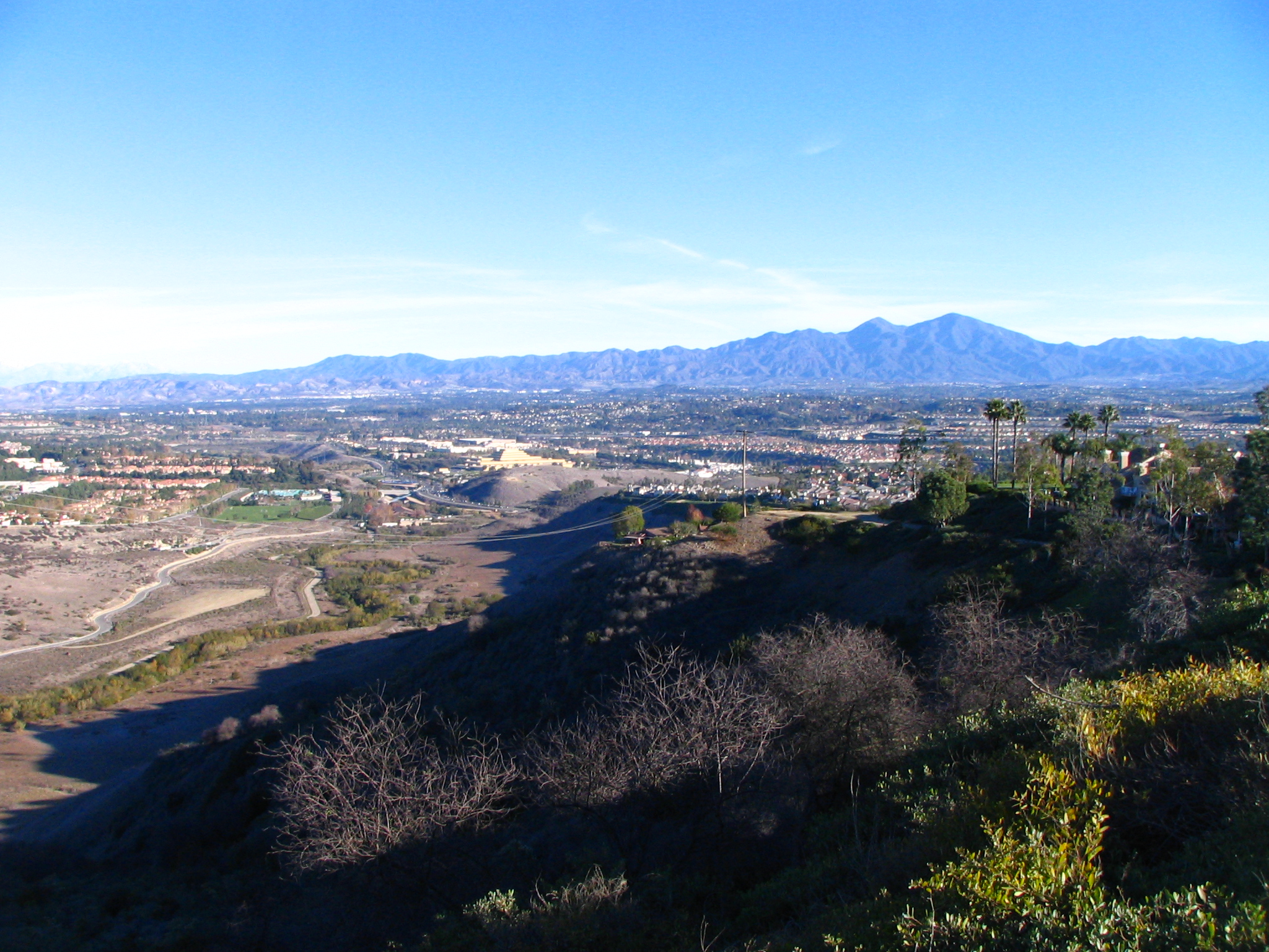 View from hill in Orange County, with Aliso Creek valley on left and Salt Creek valley barely visible on right. The Saddleback formation is visible in the distance as well as a good portion of the Santa Ana Mountains